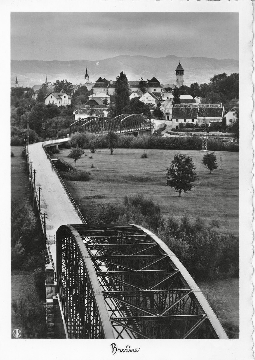 Postcard of Brežice